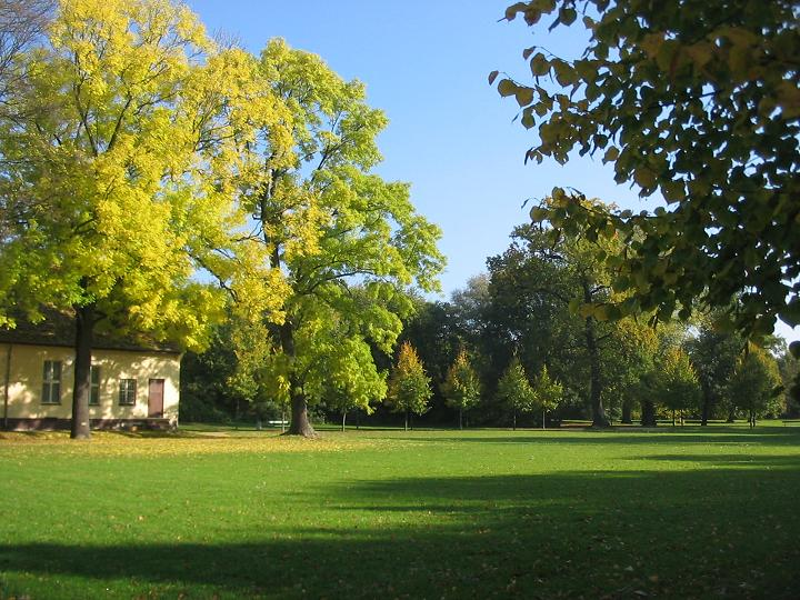 Palace garden Schloss Königs Wusterhausen. The „Schloss“ is a renaissance-castle in Königs Wusterhausen, a town in the north of the district Dahme-Spreewald in Brandenburg, Germany. The castle was built in the 16th century and was used by Frederick William I of Prussia as hunting lodge.